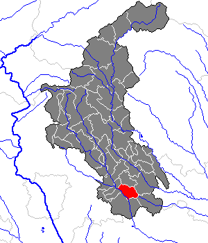 This map shows the area of the Gemeinde (municipality) Hofstätten an der Raab in the Bezirk (district) Weiz, Styria, Austria.